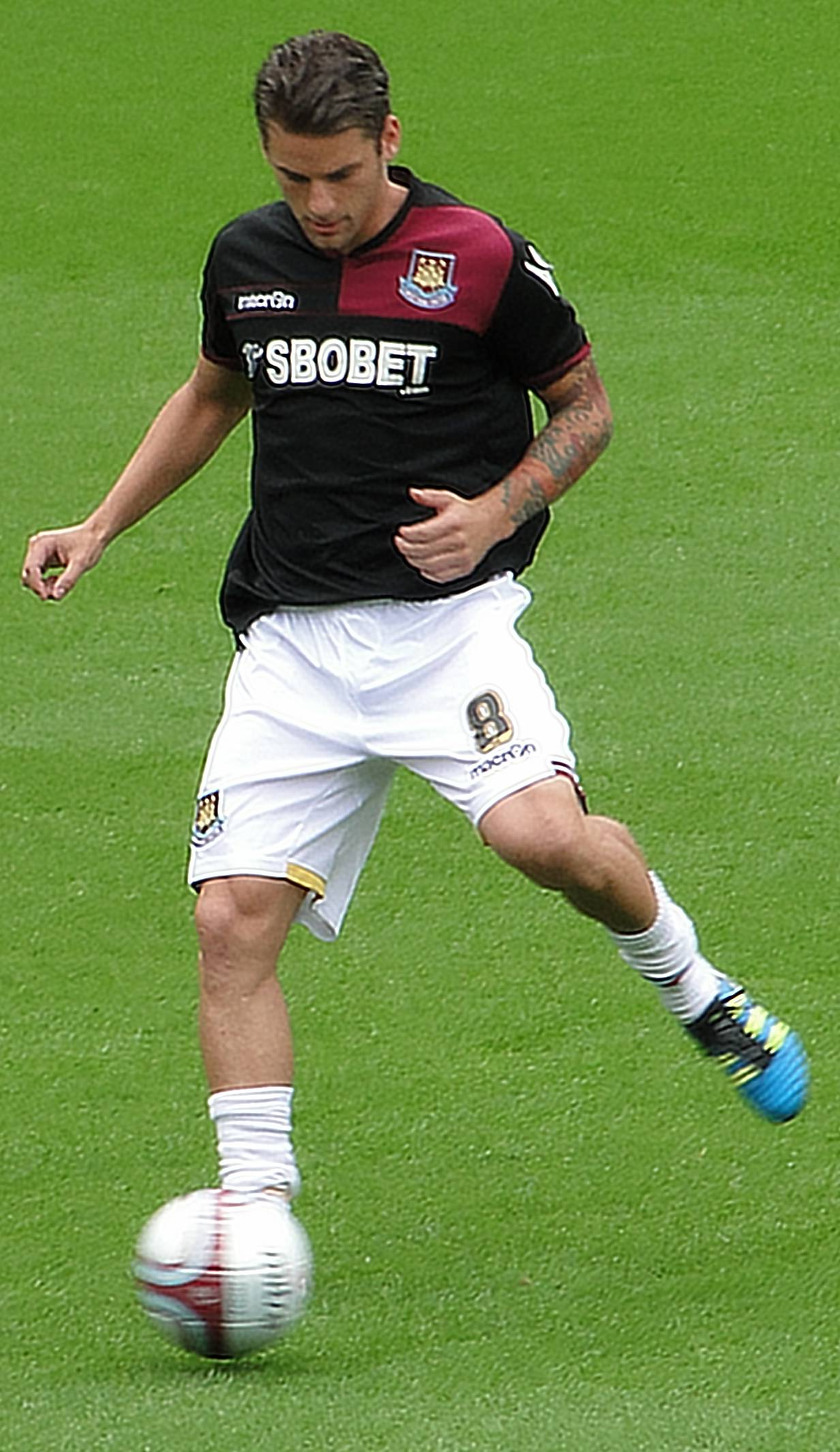 West Ham United player, David Bentley, warming-up before their game at The Boleyn Ground against Portsmouth